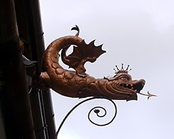 Street decoration from Brasov